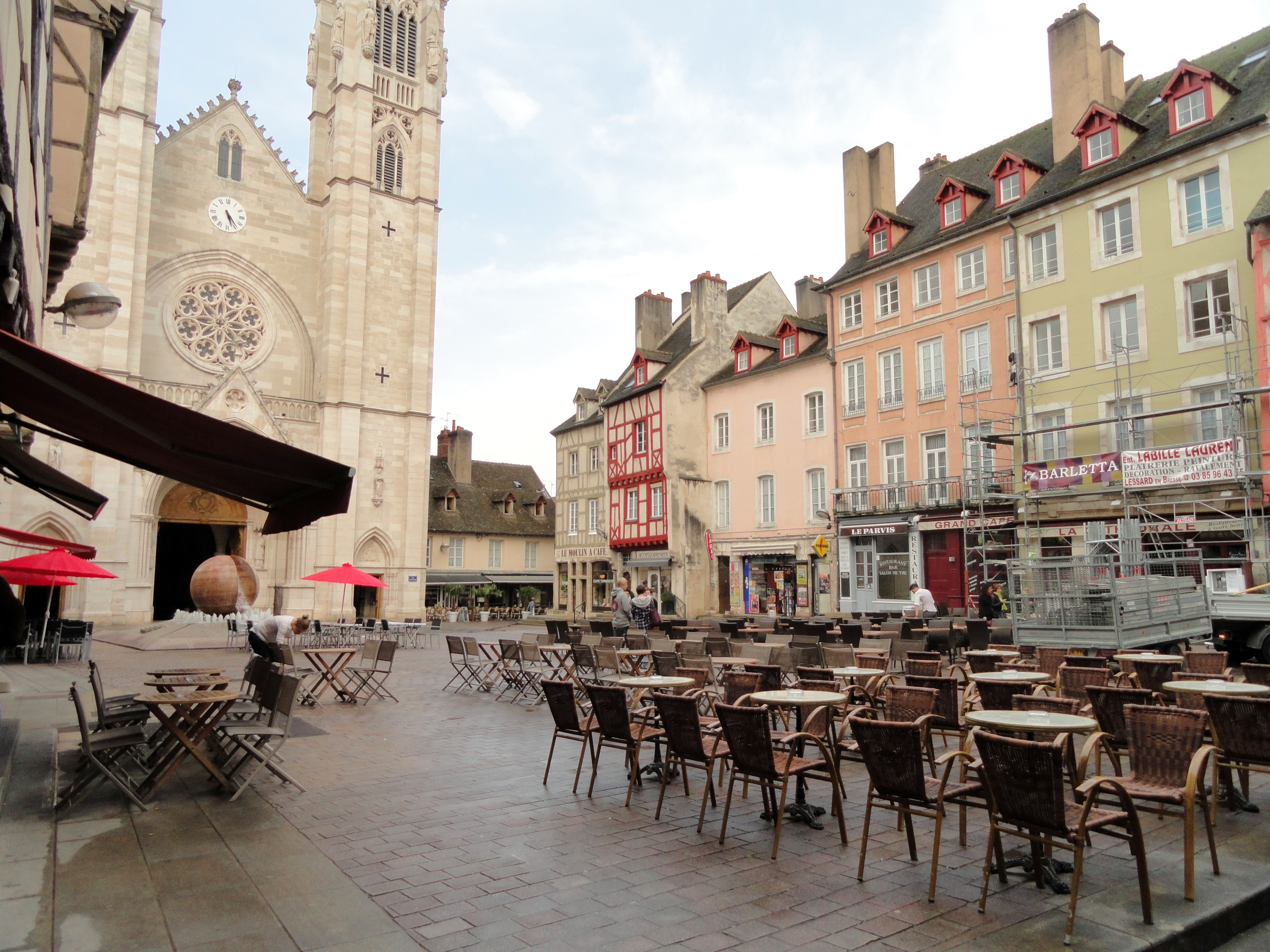 View of Chalon sur Saône, Saône-et-Loire, Bourgogne, France.